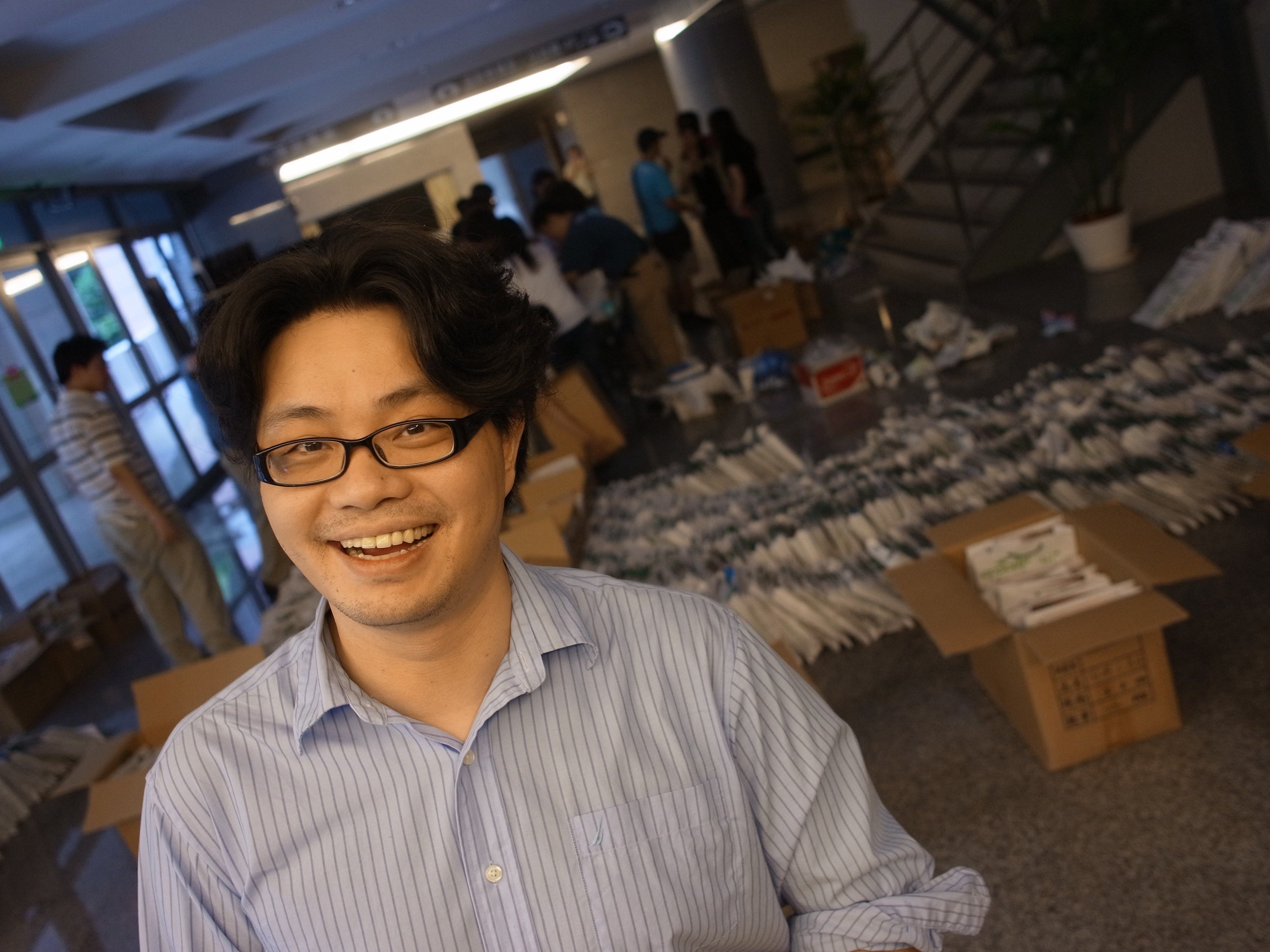 Aguai Chih-Han Chen at COSCUP 2011 Day 0.